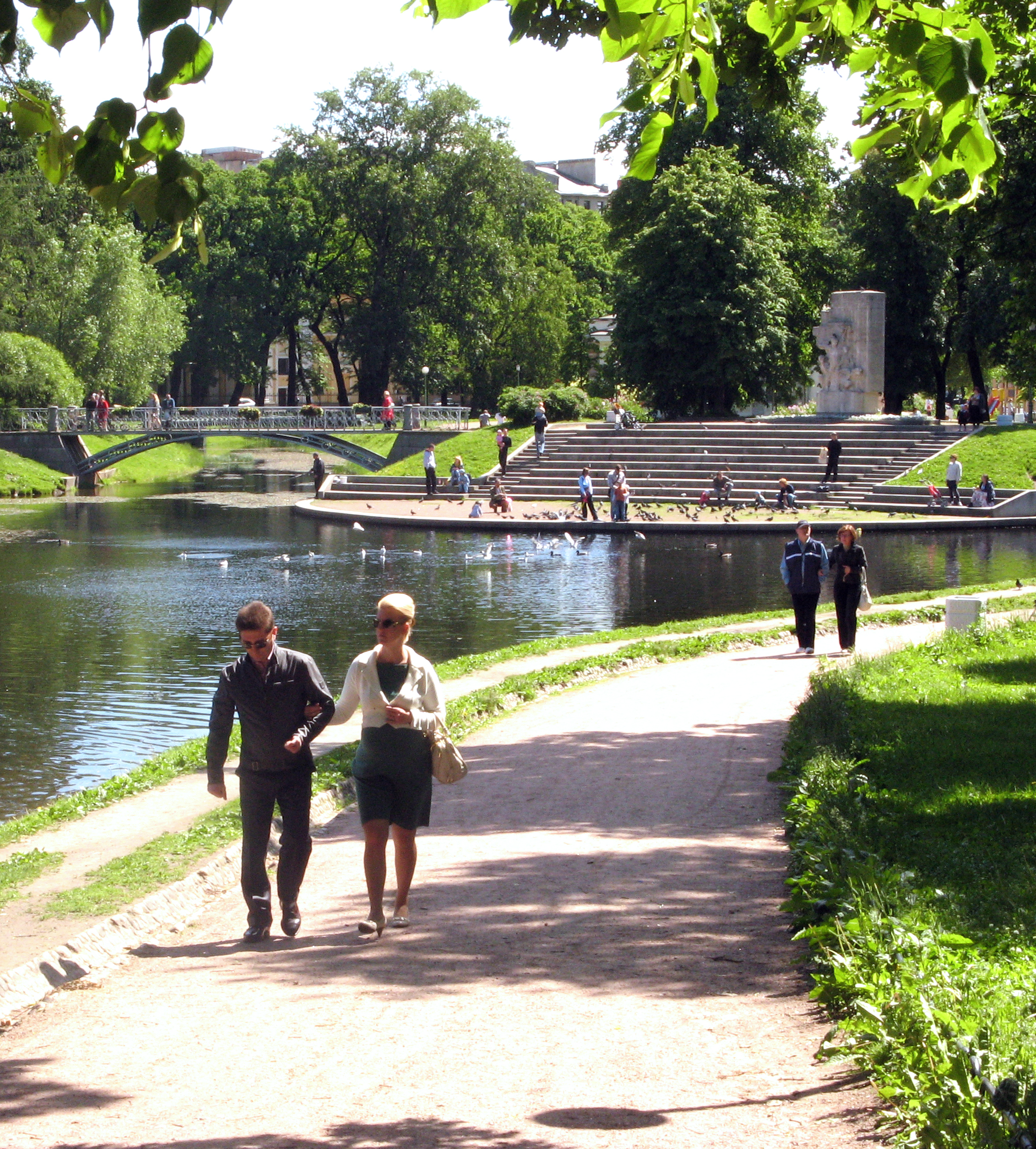 Tauride garden (Bridge, lake, and obelisk), Saint-Petersburg, Russia.